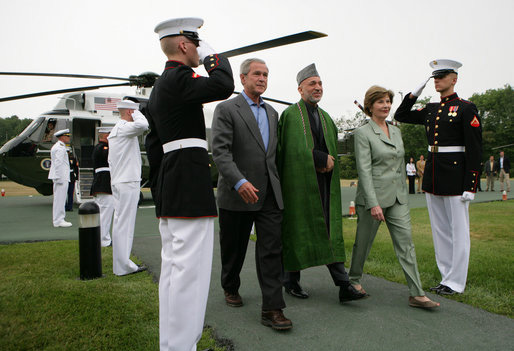 President George W. Bush and Laura Bush walk with President Hamid Karzai of Afghanistan during an arrival ceremony at Camp David, Sunday, Aug. 5, 2007.